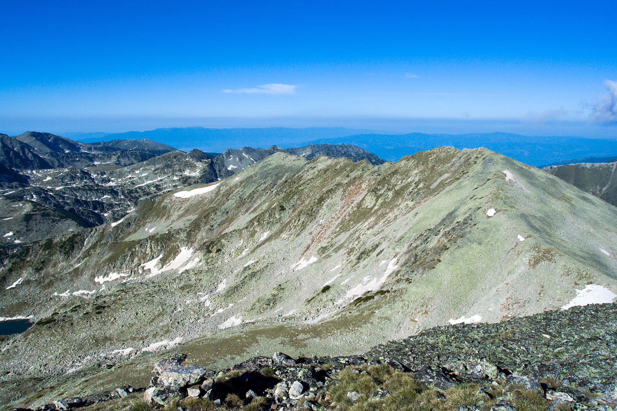 Maluk Polezan (Maluk Mangurtepe) summit in Northern Pirin mountain, Bulgaria